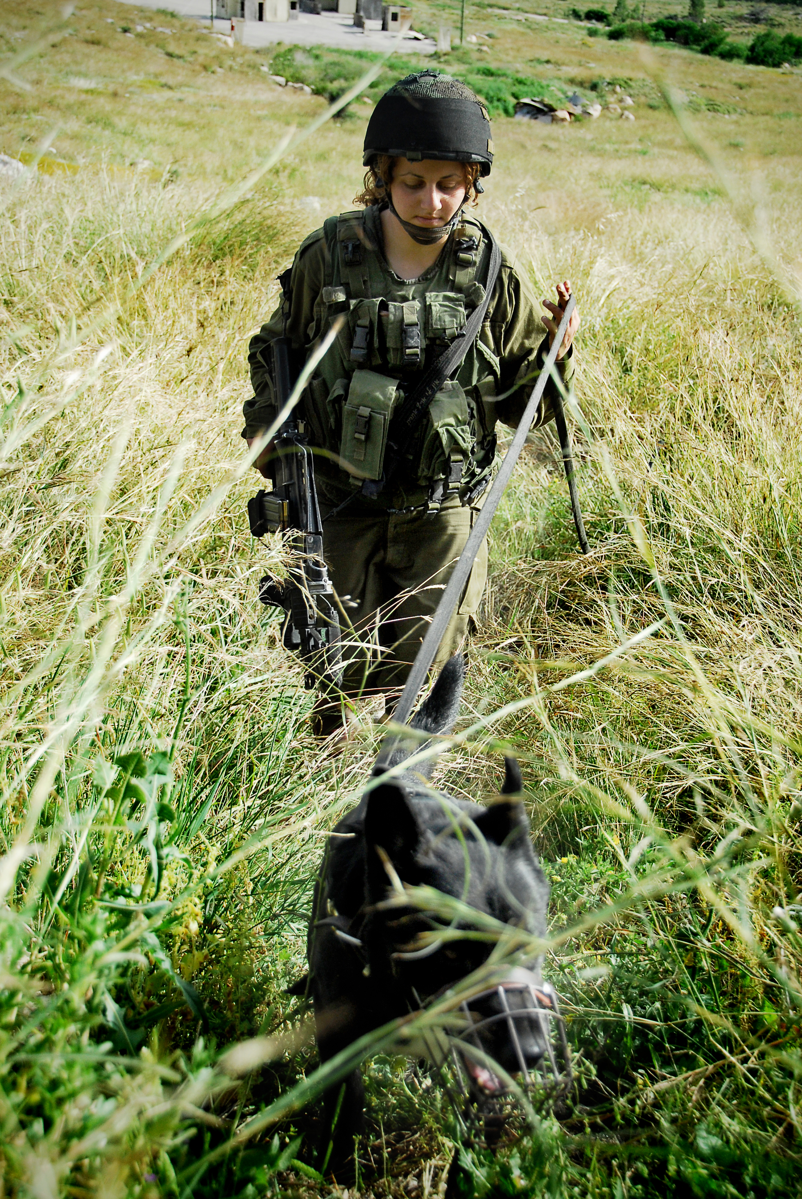 March 23, 2010 In celebration of the upcoming International Women's Day, we've decided to share with you photos of women serving across the range of different units in the IDF. On the ground, in the sea, or in the air; the IDF's women take equal part in protecting Israel at all times. Pictured: Staff Sergeant Marina Izmailov , a combat soldier in the Oketz canine unit, during an exercise with her dog Case, who is trained to find hidden explosives. Staff Sgt. Izmailov received a citation of excellence from President Shimon Peres on Israel's 62nd Independence Day. Case also joined on stage to receive his citation. Featured as 'Photo of the Day' on March 1, 2011. Photo by Cpl. Ori Shifrin, IDF Spokesperson's Film Unit.